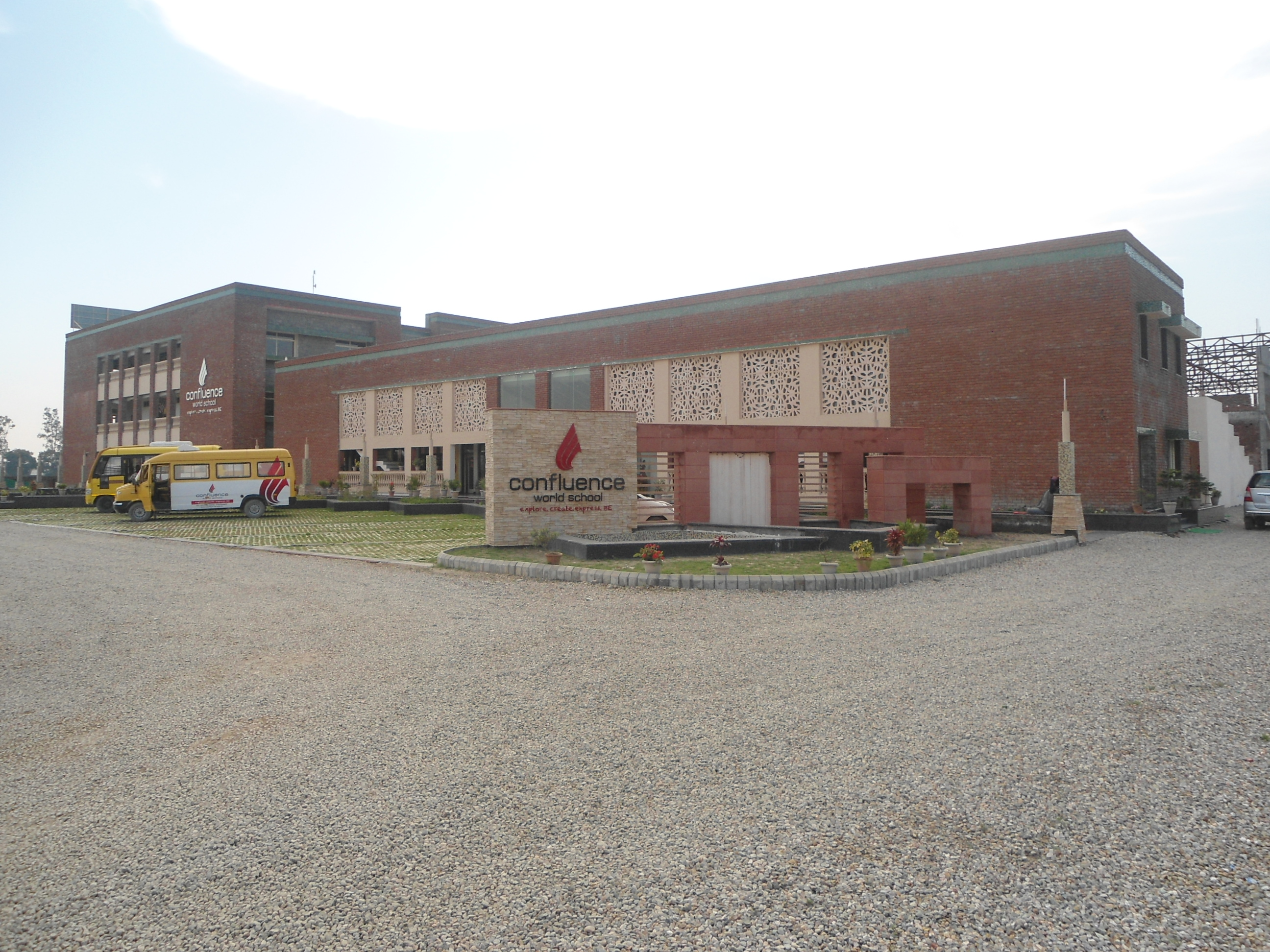 Image of the school campus for the Confluence World School, Rudrapur, Udham Singh Nagar, Uttarakhand, India.